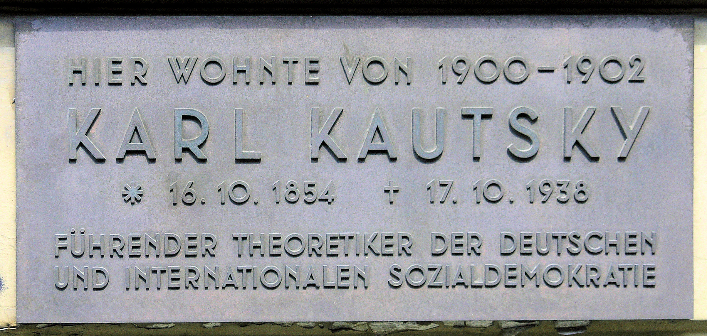 Memorial plaque, Karl Kautsky, Saarstraße 14, Berlin-Friedenau, Germany Koordinate:52°28′4″N 13°20′9″E / 52.46778°N 13.33583°E